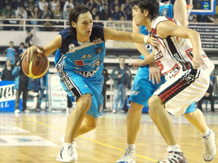 Peñarol's point guard Rodríguez in a match against Quilmes